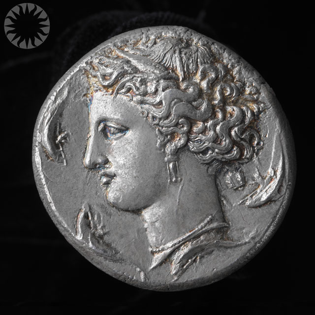 Syracuse Dekadrachm c400 BCE obvAncient Greek Silver Coin (Dekadrachm), about 400 B.C.E.